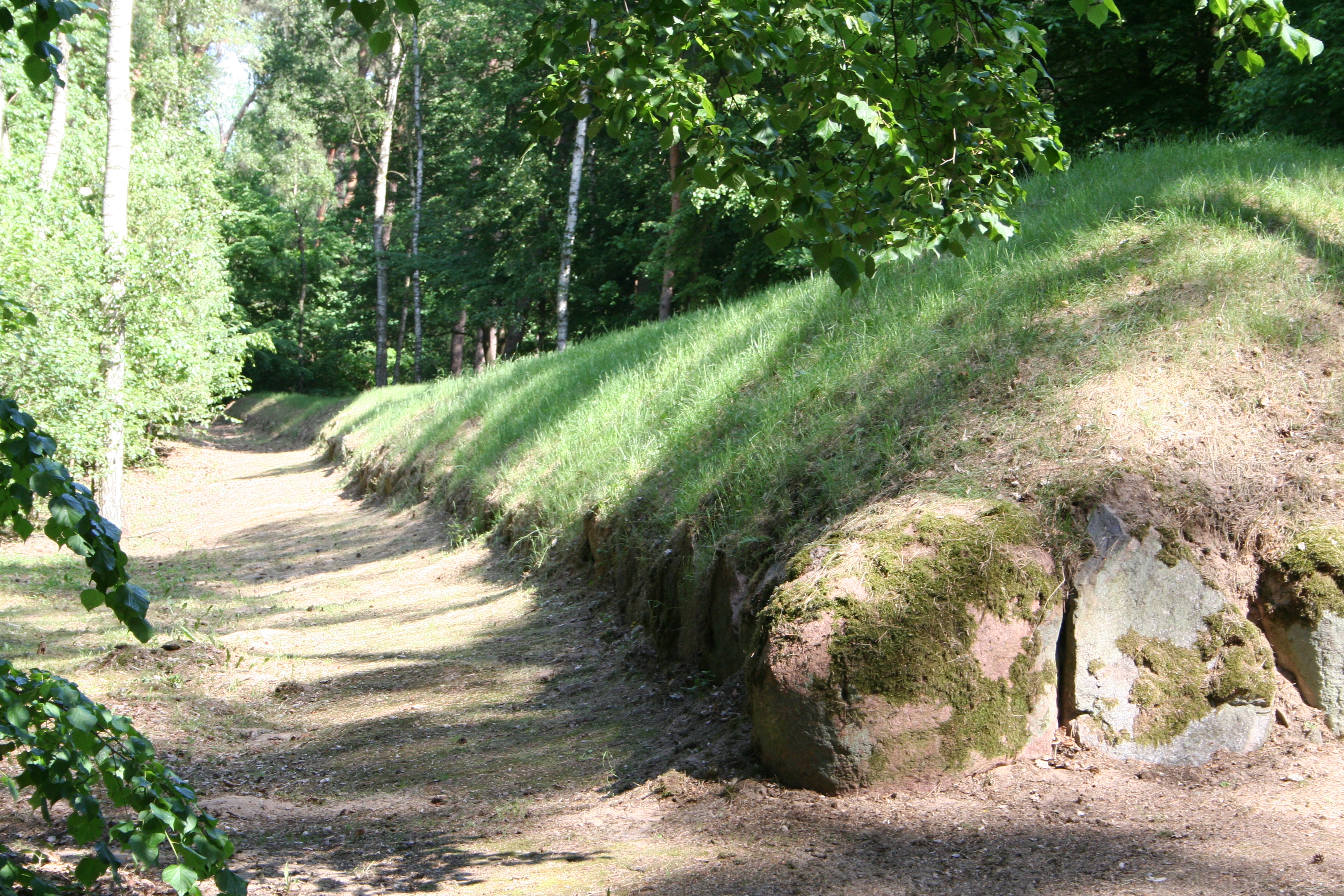 Earthen Long Barrow Wietrzychowice 2